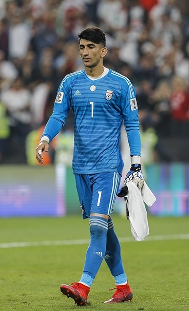 China PR-Iran Quarter-finals, 2019 AFC Asian Cup